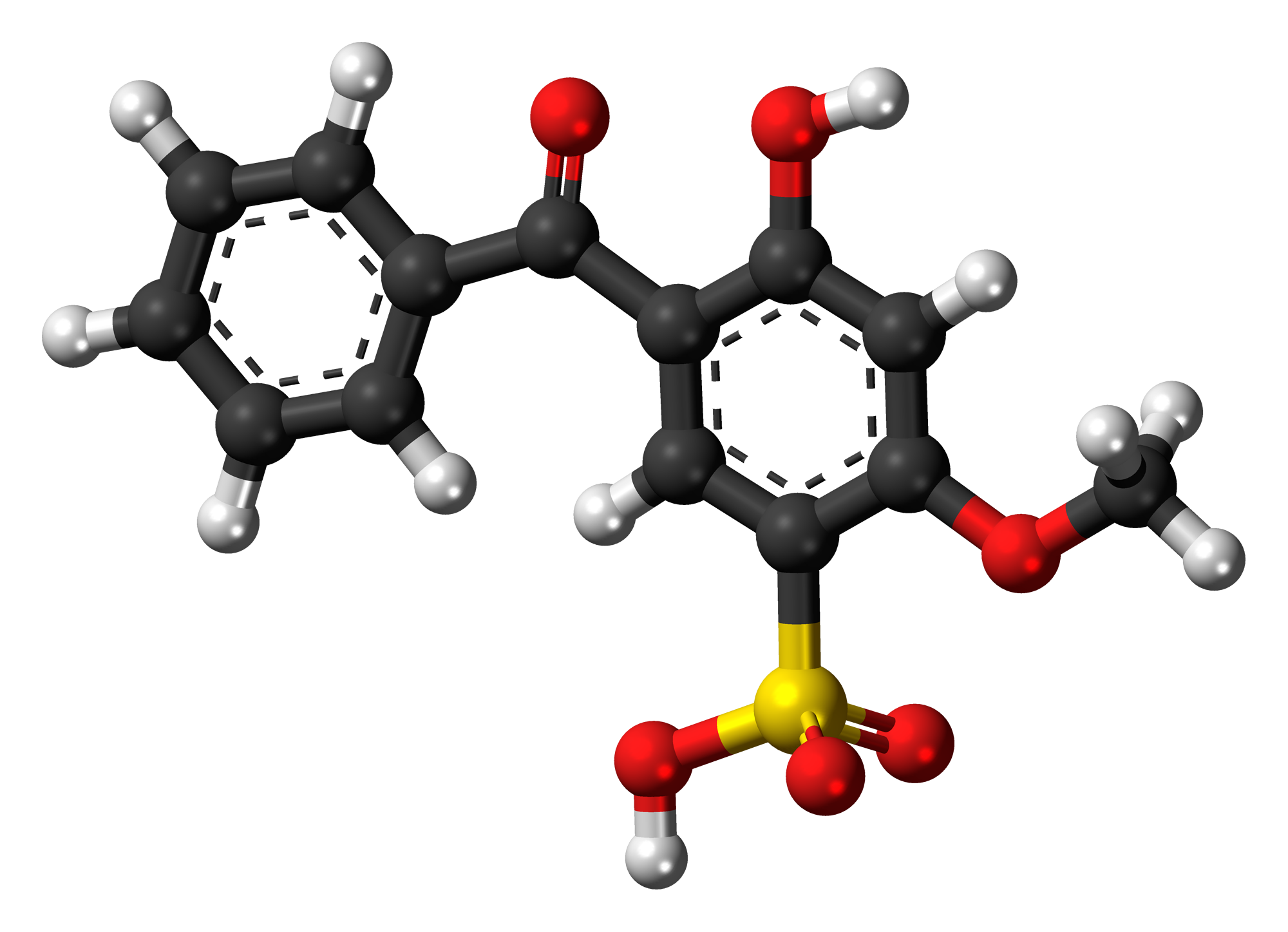 Ball-and-stick model of the sulisobenzone molecule, a sunscreening agent. Colour code: Carbon, C: black Hydrogen, H: white Oxygen, O: red Sulfur, S: yellow